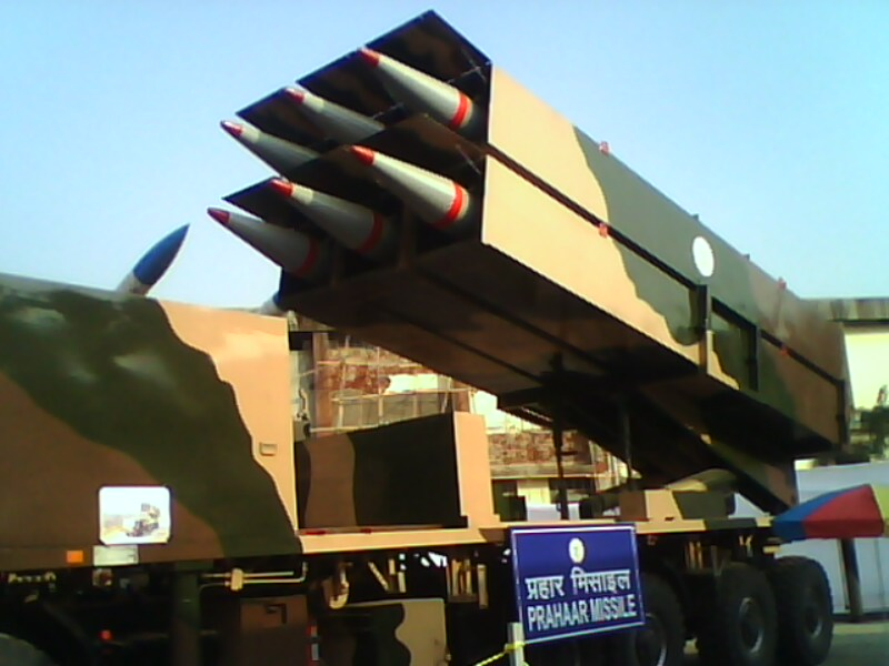 Indian Army Exhibiting the armour of Mother India at DRDO (DEFENCE RESEARCH & DEVELOPMENT ORGANISATION)